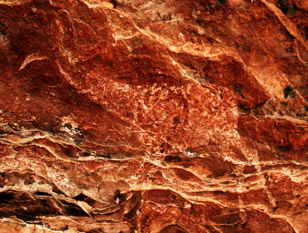 At Sossusvlei Desert Lodge, on NamibRand Nature Reserve, where I worked, one really special interest of mine was all the bushman artifacts we had in the area. Of course, the most interesting of all that archaeological material was the rock art. This Giraffe was the best painting that we found on the whole farm, I think on the whole NamibRand Nature Reserve.